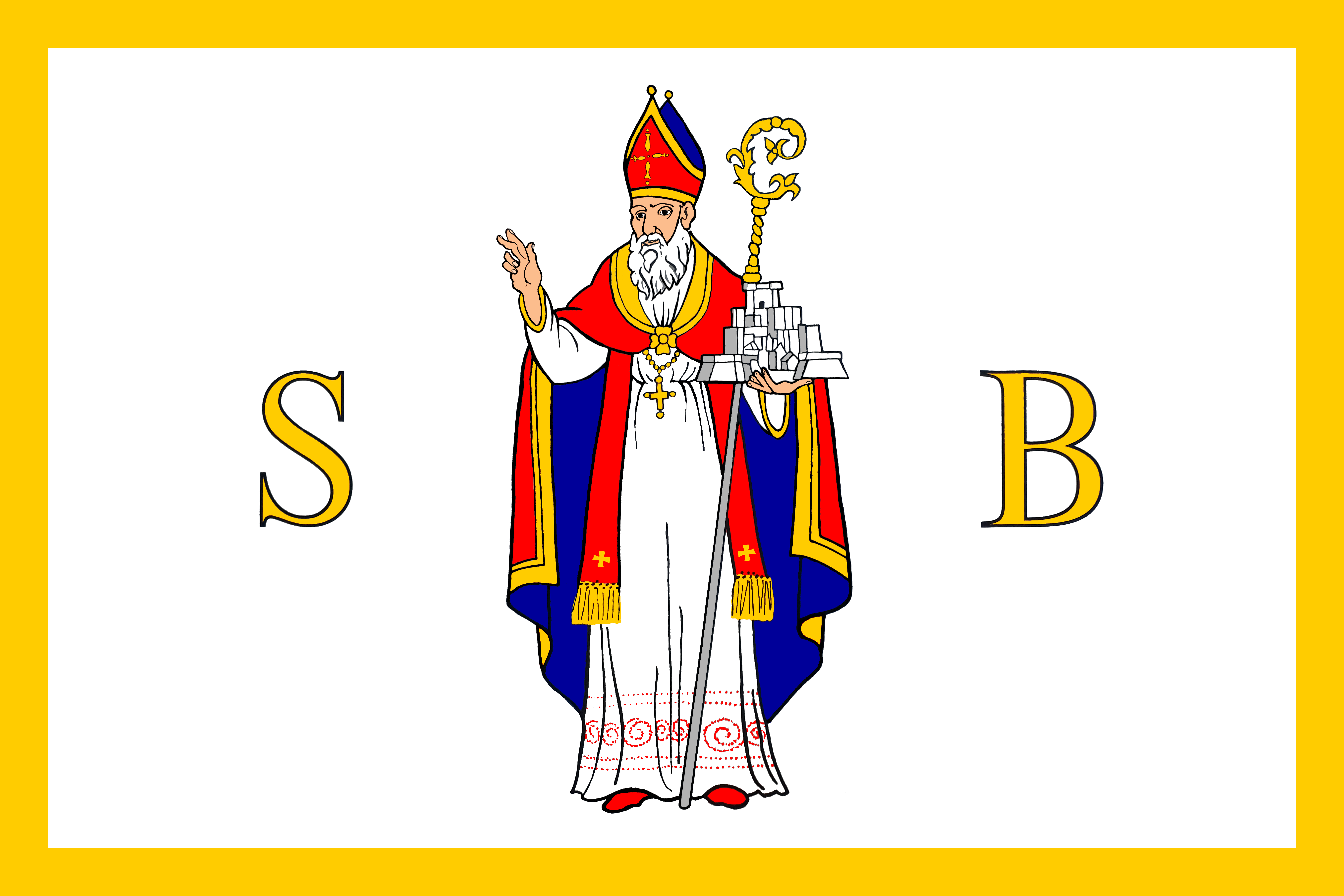 Representation of the flag of St. Blaise which is the National Flag of the Ragusan Republic, in the colors used during the Republic. Srpskohrvatski / српскохрватски: Prikaz barjaka sv. Vlaha koji je narodni barjak Dubrovačke Republike, u bojama koje su se koristile za vrijeme Republike.